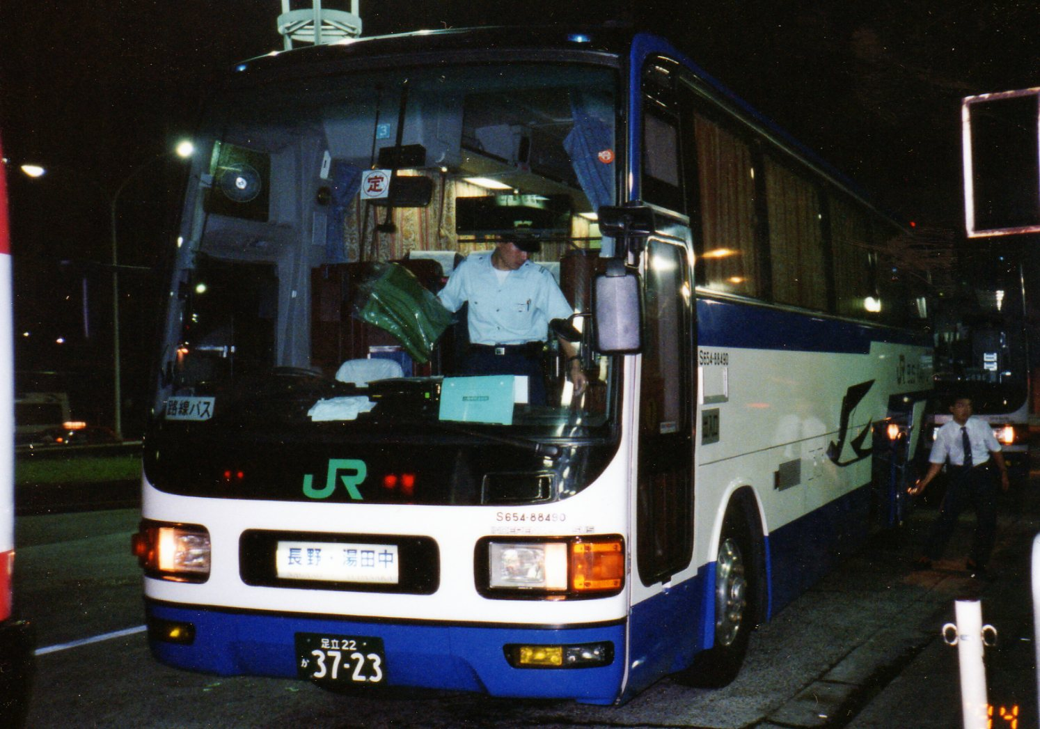 JR Bus Kanto（ジェイアールバス関東）S654-88490 "Dream Shiga" Mitsubishi P-MS729SA 1994.07.30 at Tokyo Sta. Photo by Cassiopeia_sweet.